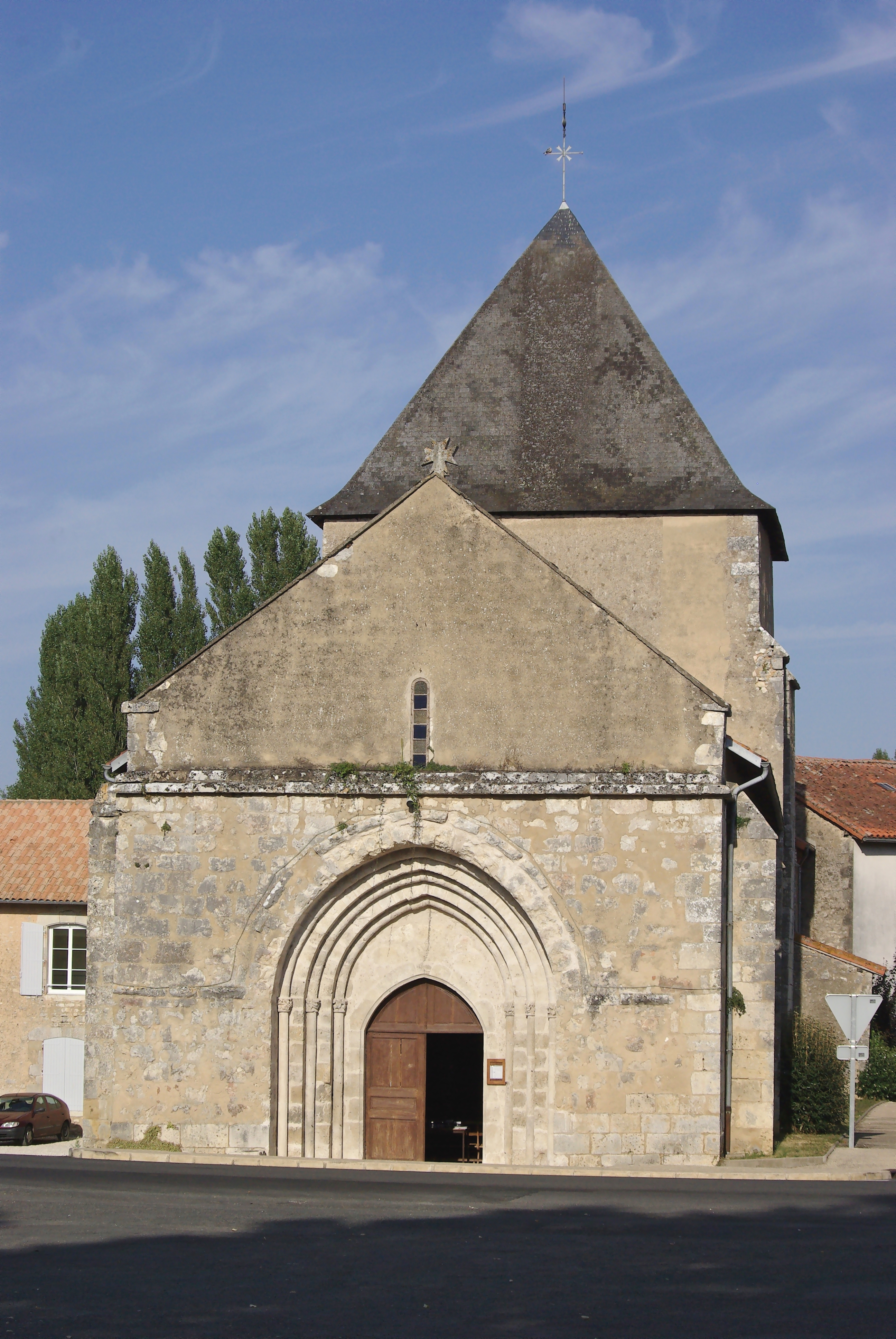 Saint-Martin church (XIth century), façade, Saint-Martin-l'Ars, France.